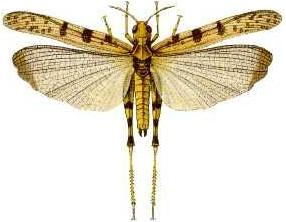 The image of C. terminifera at " is an image with no copyright or any other constraints whatsoever.